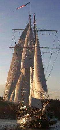 Amazing Grace Tall Ship